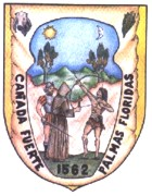 This image is of the shield of the city of Susticacan, Zacatecas, Mexico.